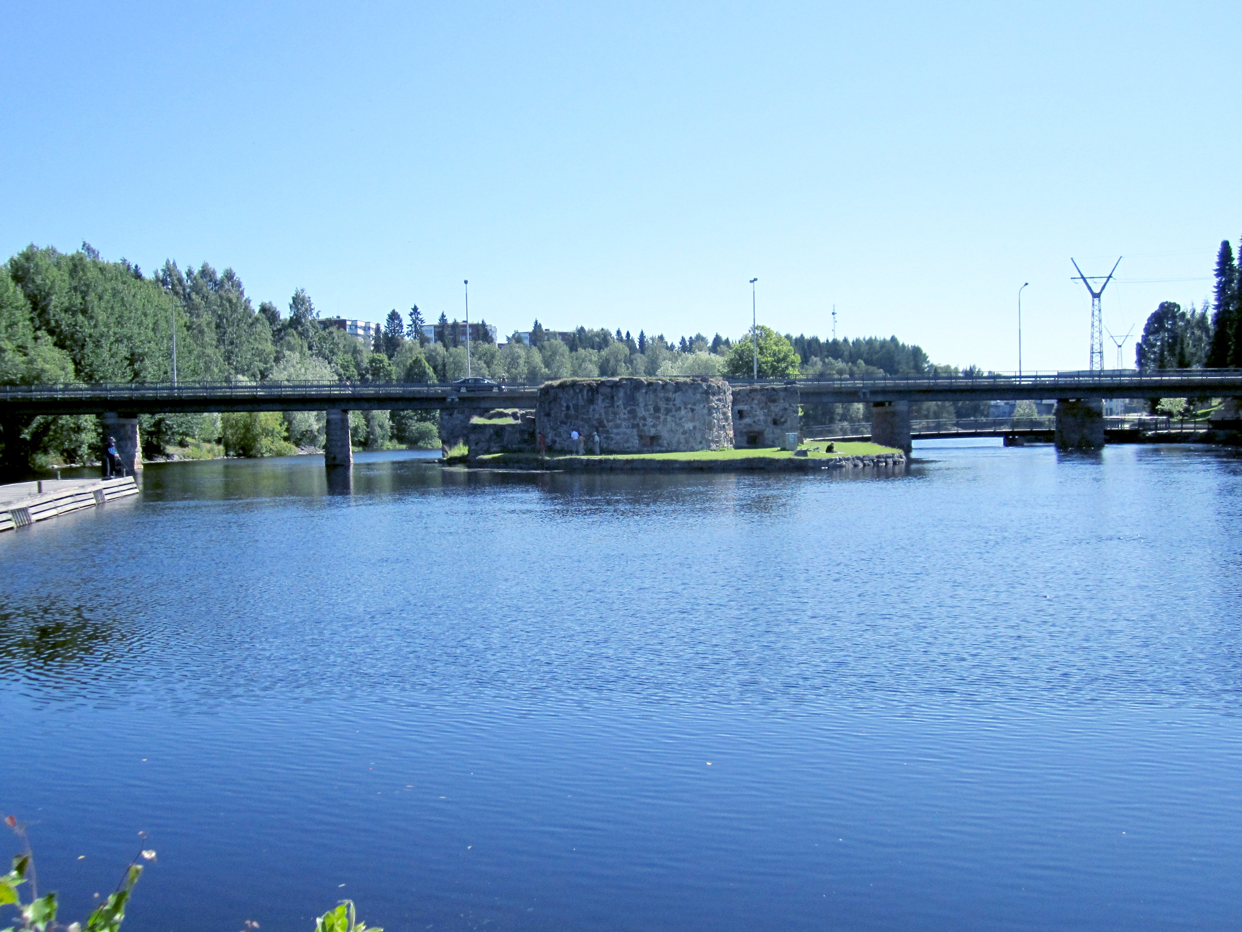 The ruins of Kajaani Castle, Finland. The castle was blown up by the Russians during the Great Northern War in the 18th century. A vehicular bridge, reviled by many, was later built upon the castle ruins.